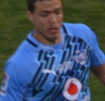 The Vodacom Bulls team to face the Brumbies 27 July 2013